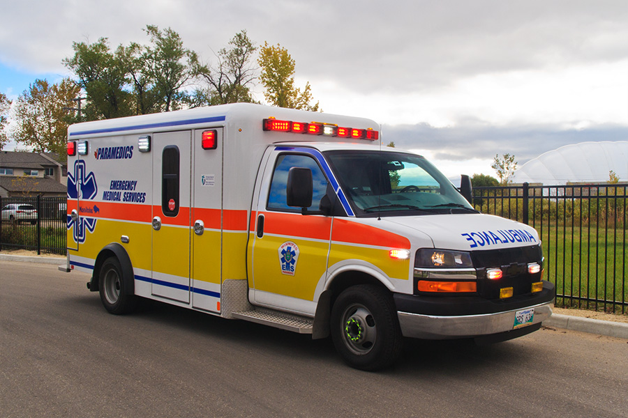 WEMS ambulance Other information 3/4 front view of typical Manitoba ambulance